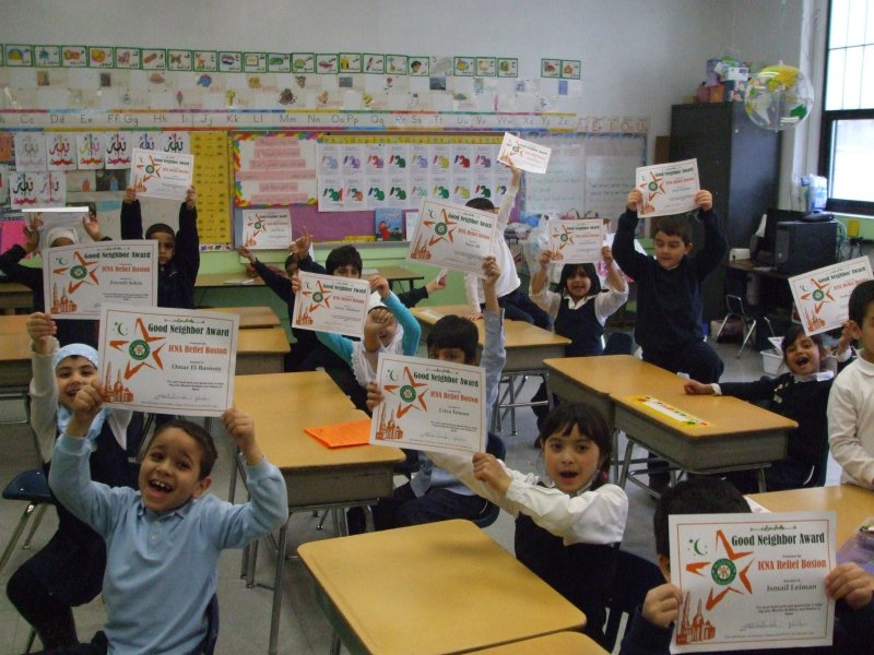 picture of classroom